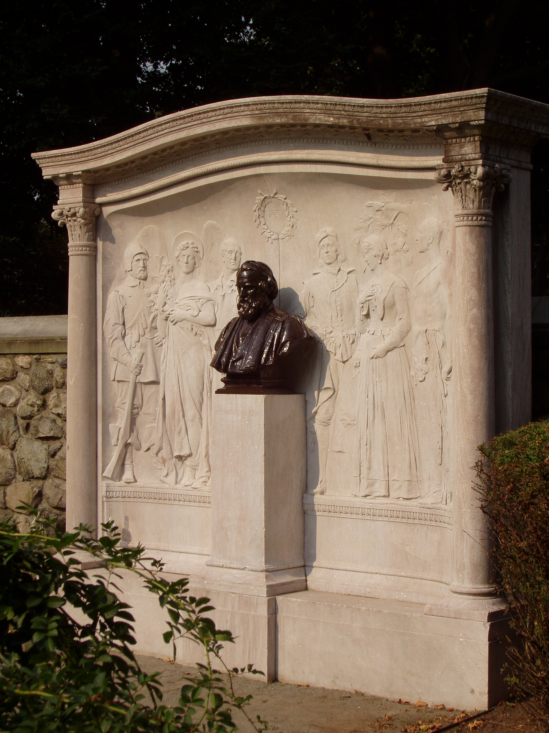 Henry Wadsworth Longfellow Memorial by sculptor Daniel Chester French (1850-1931), Cambridge, Massachusetts, USA. A bust of Longfellow is in the middle. To the left are bas relief sculptures of Miles Standish, the angel Sandalphon from his "Birds of Passage", and The Village Blacksmith. To the right are The Spanish Student, Evangeline (holding her Bible and Rosary), and Hiawatha. This sculpture is now in the public domain, as its author died more than 70 years ago.